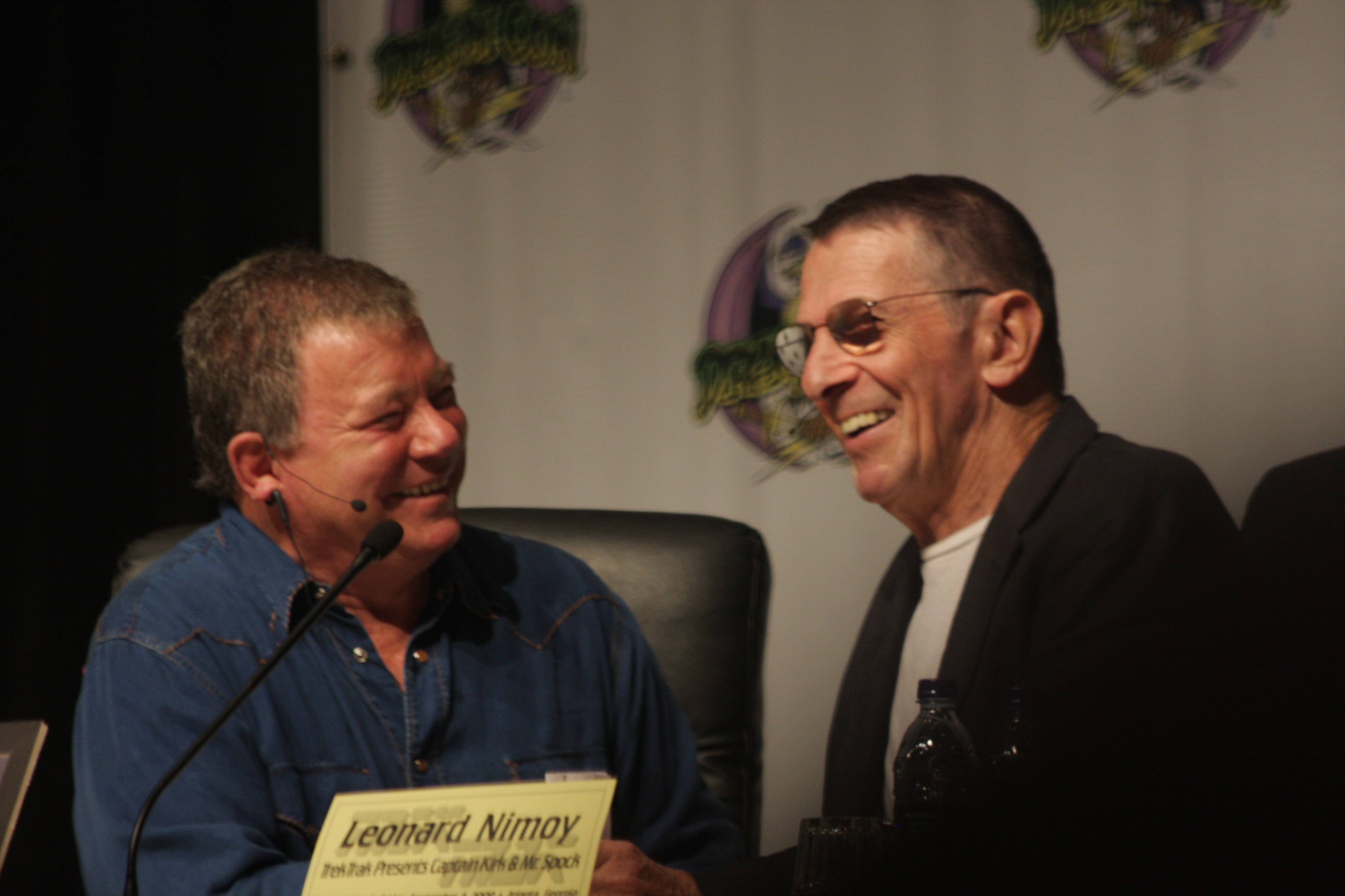 Star Trek actors William Shatner and Leonard Nimoy share a laugh at Dragon Con 2009.